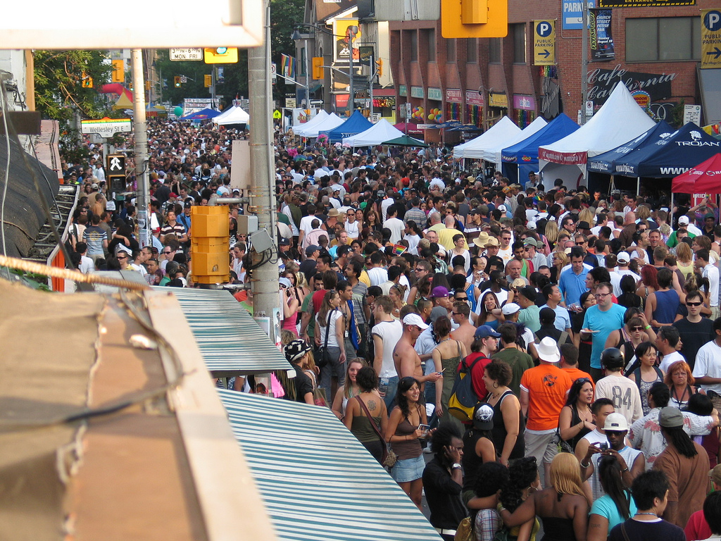 Rooftop view south on Church, near Wellesley.